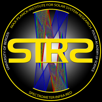 SIR-2 Logo of lunar multispectral instrument - designed by Roberto Bugiolacchi